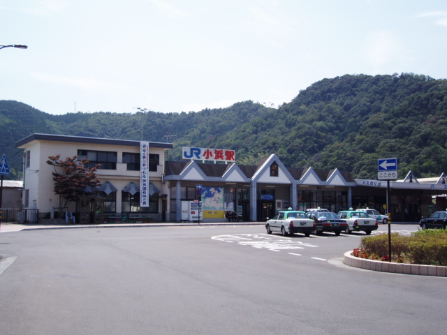 West Japan Railway Obama Line Obama Station 西日本旅客鉄道 小浜線 小浜駅